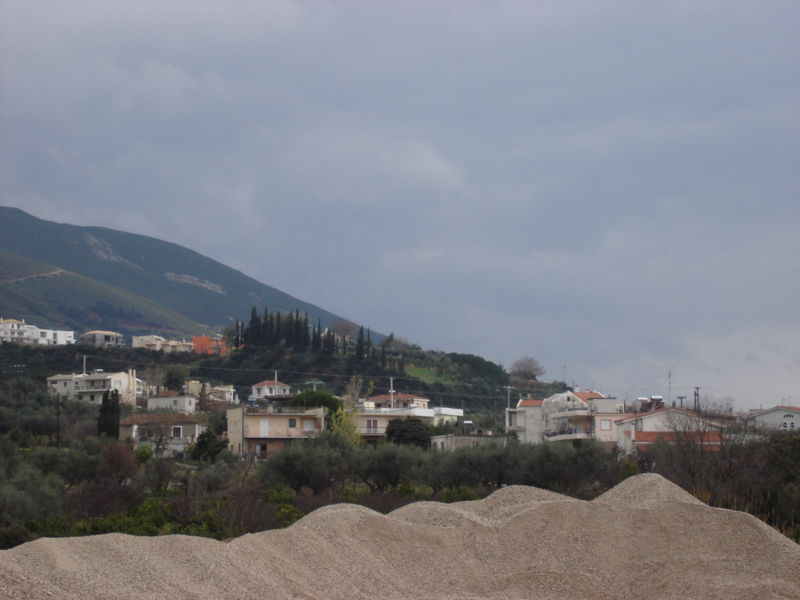 Petroto Village Greece